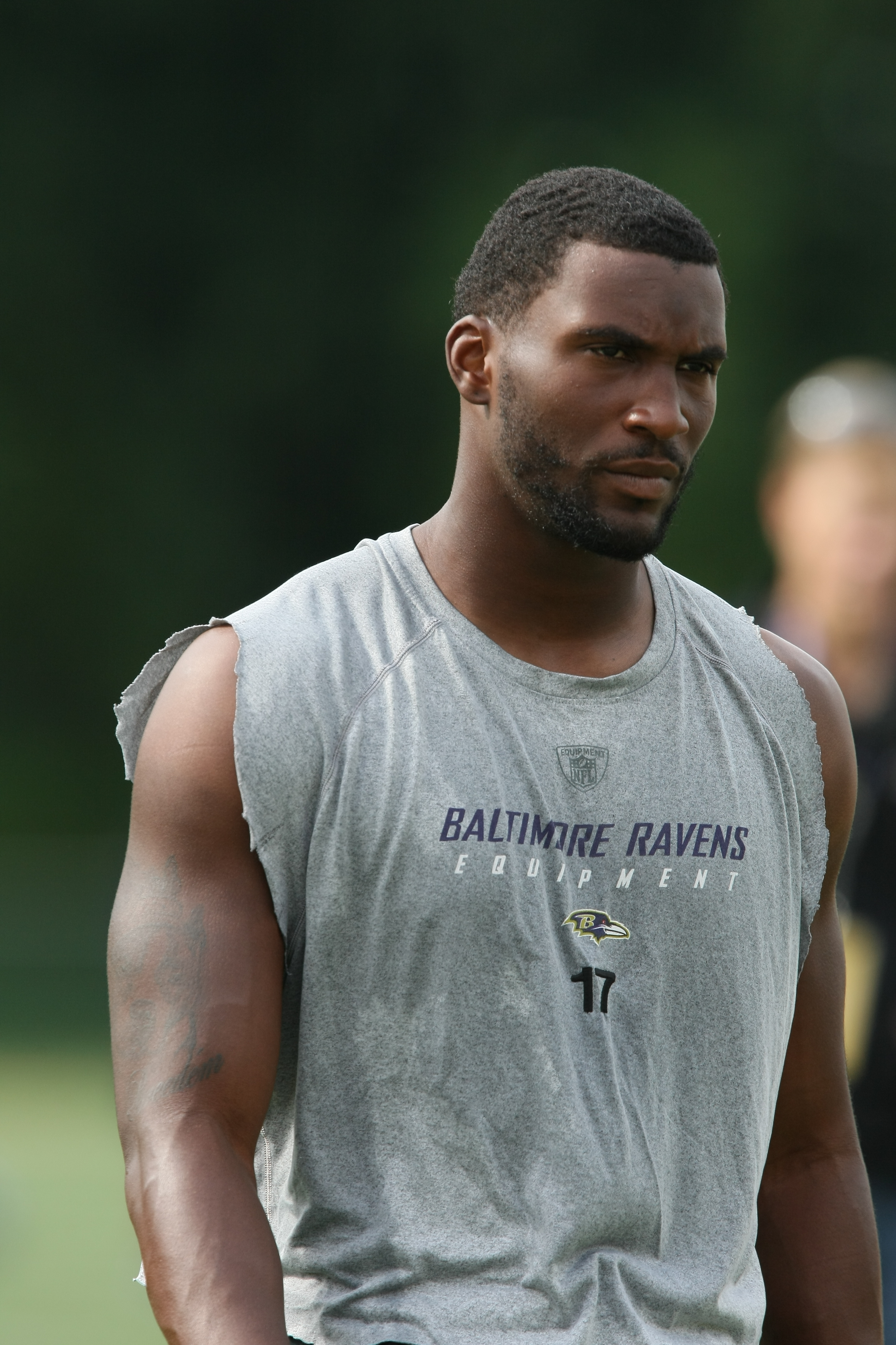 Baltimore Ravens Training Camp August 22, 2009